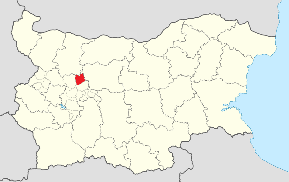 Location map of Pravets Municipality within Bulgaria and Sofia province